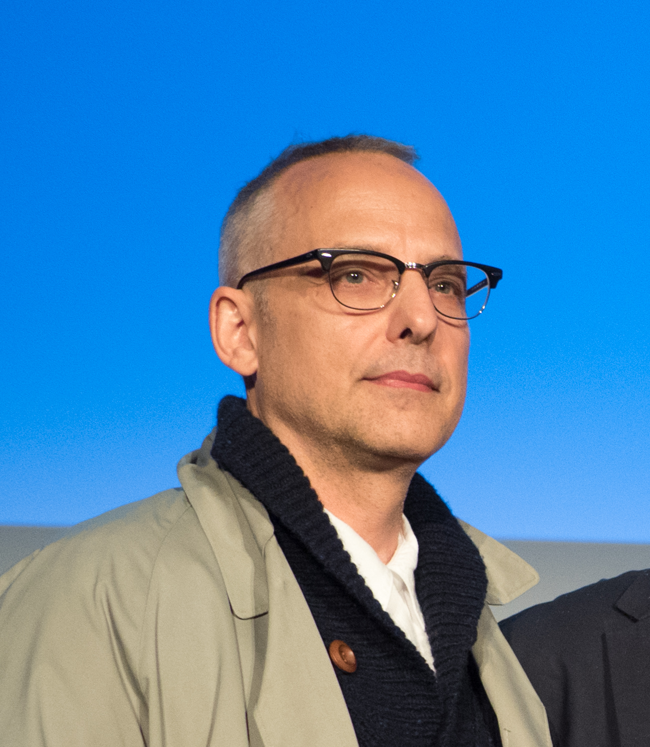 Marc Smerling, Zac Stuart-Pontier, and Charles Kennedy at the Crimetown Live session of the Vulture Festival in NYC.